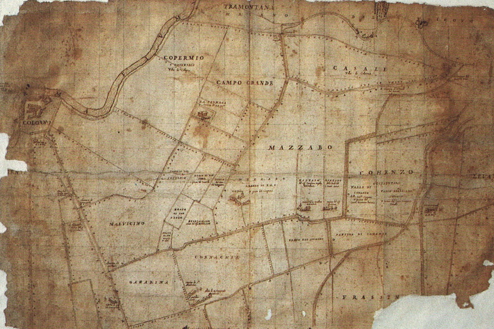 Colorno boundaries in map of Smeraldo Smeraldi